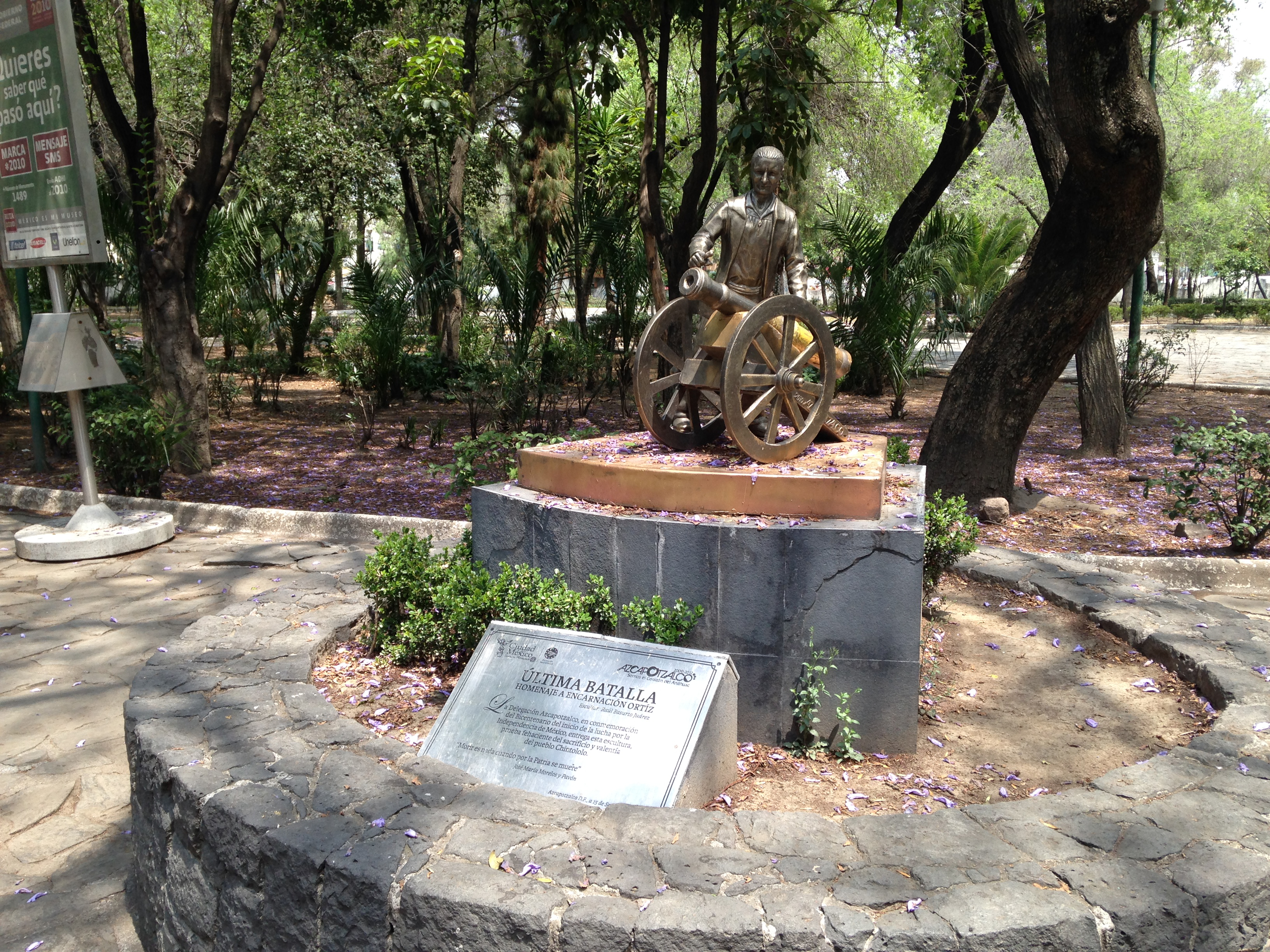 Encarnación Ortiz sculpture commemorating the last battle of Mexican War of Independence, which occurred in the churchyard of Azcapotzalco.